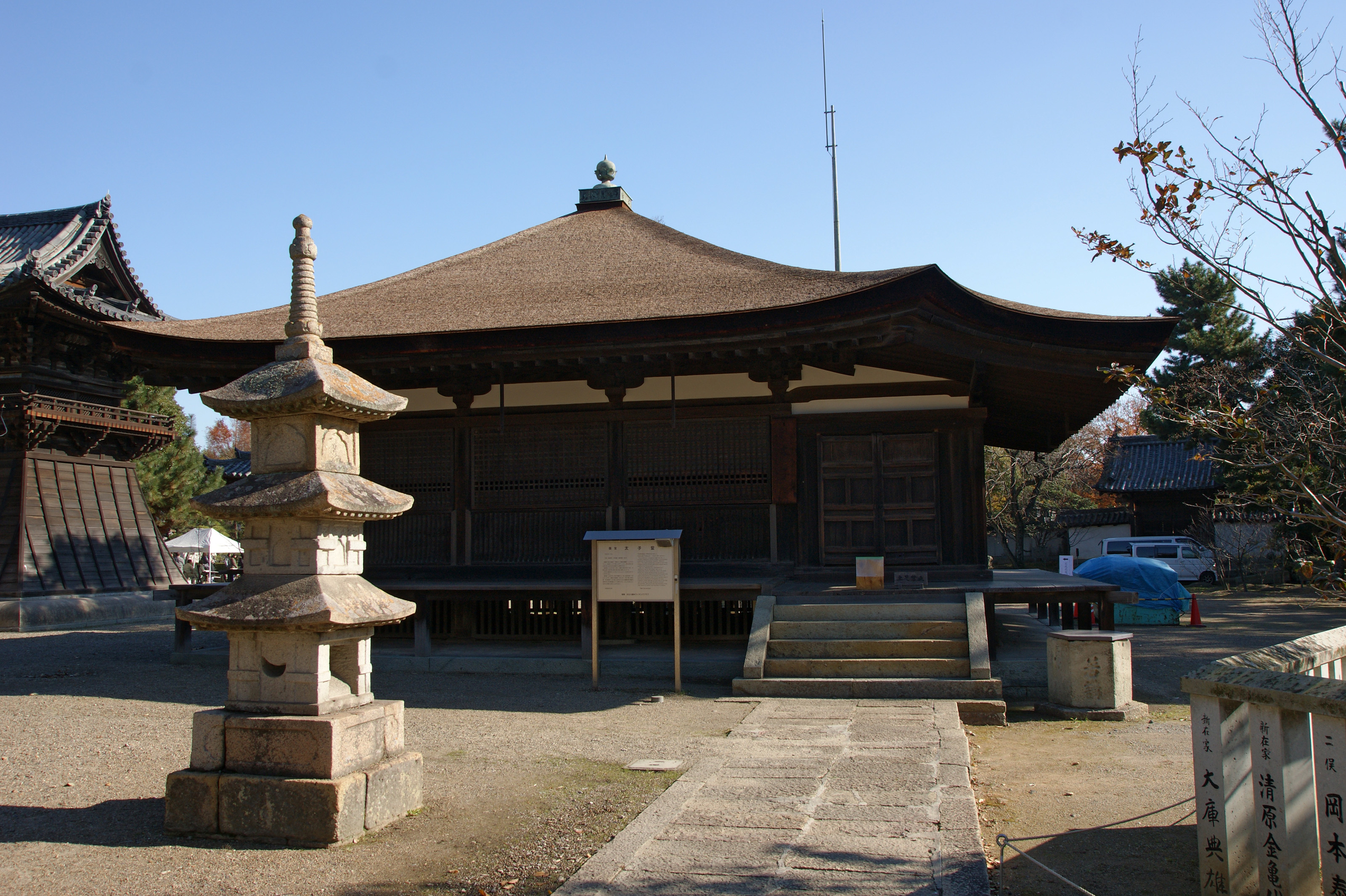 Kakurinji Buddhist temple in Kakogawa, Hyogo prefecture, Japan Opening in 716. This photograph is the Taishido (Japan's National Treasure). It was built in 1112.